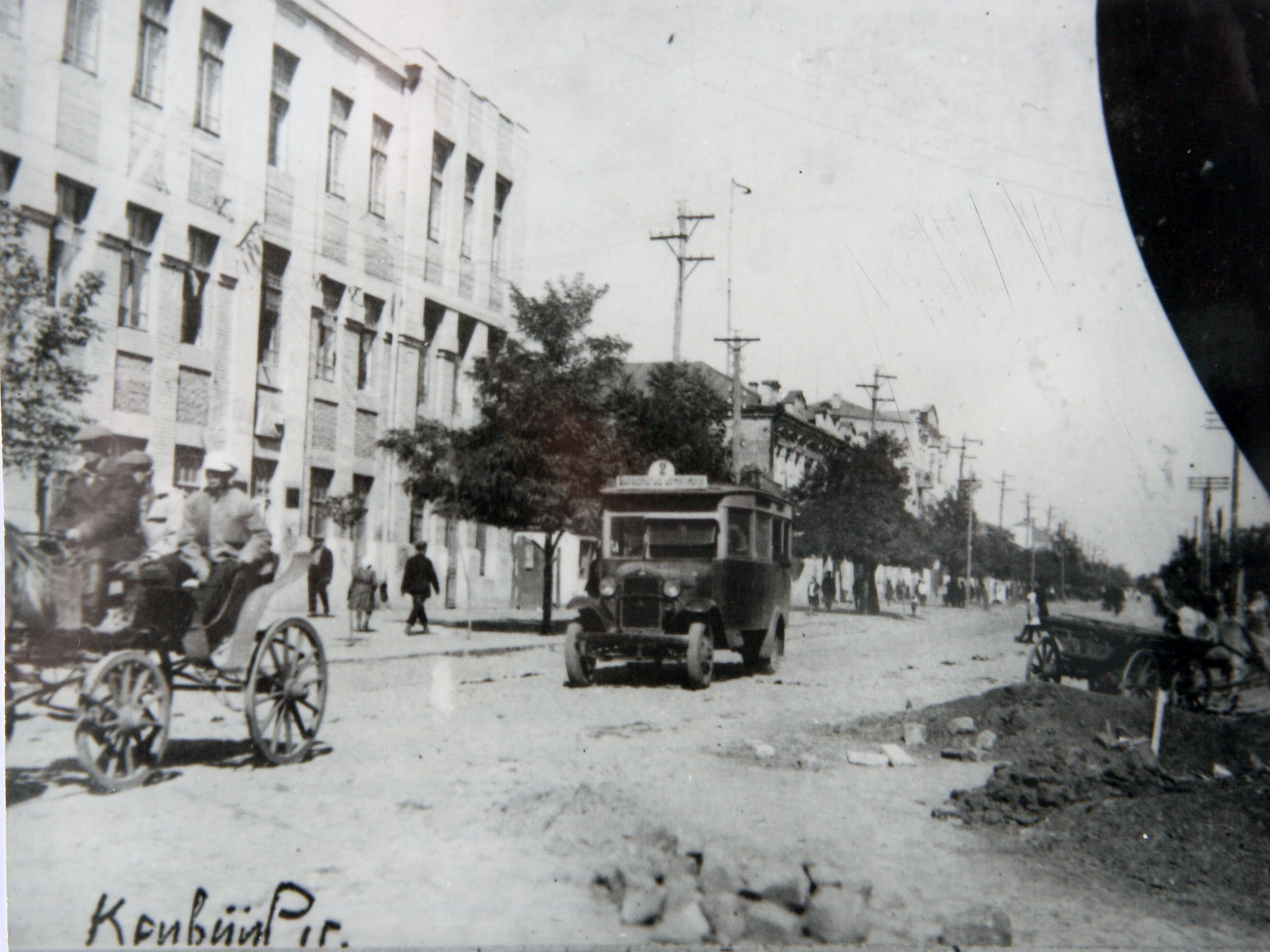 Kryvyi Rih, the bus is a GAZ-03-30